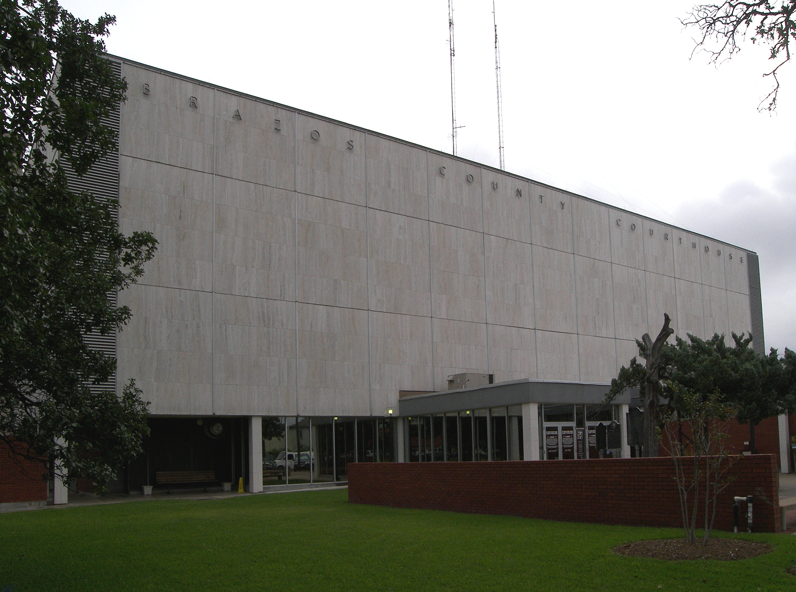 The Brazos County Courthouse located in Bryan, Texas, United States.